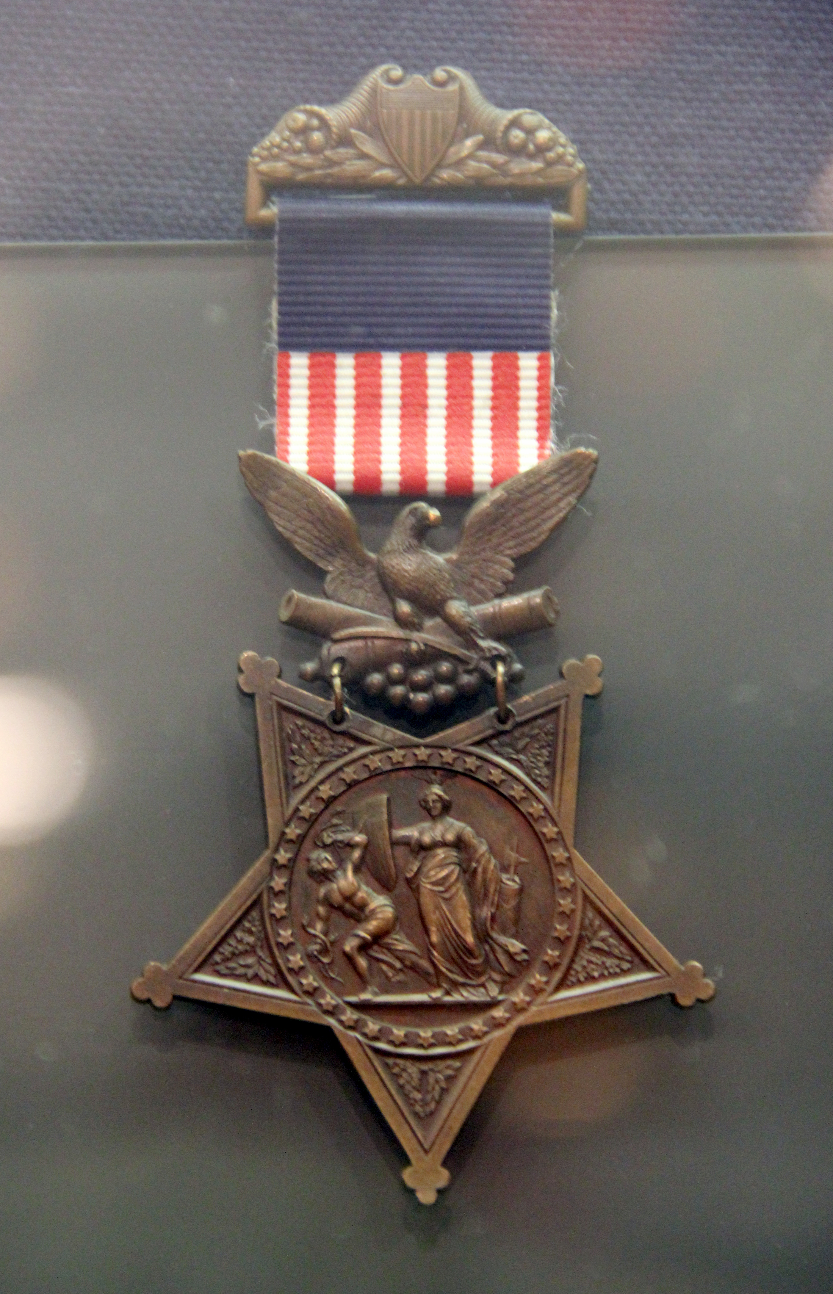 Medal of Honor awarded posthumously to John Morehead Scott on August 4, 1866, exhibited at the Southern Museum of Civil War and Locomotive History in Kennesaw, Georgia more information